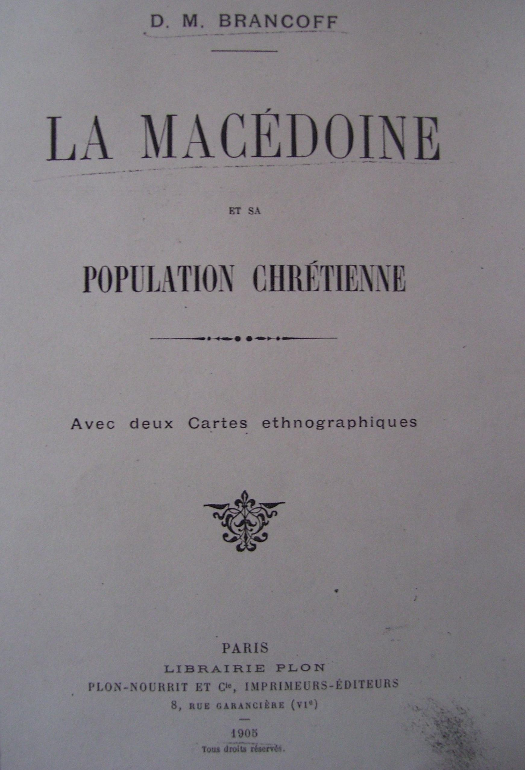 Front cover of "La Macédoine et sa Population Chrétienne"